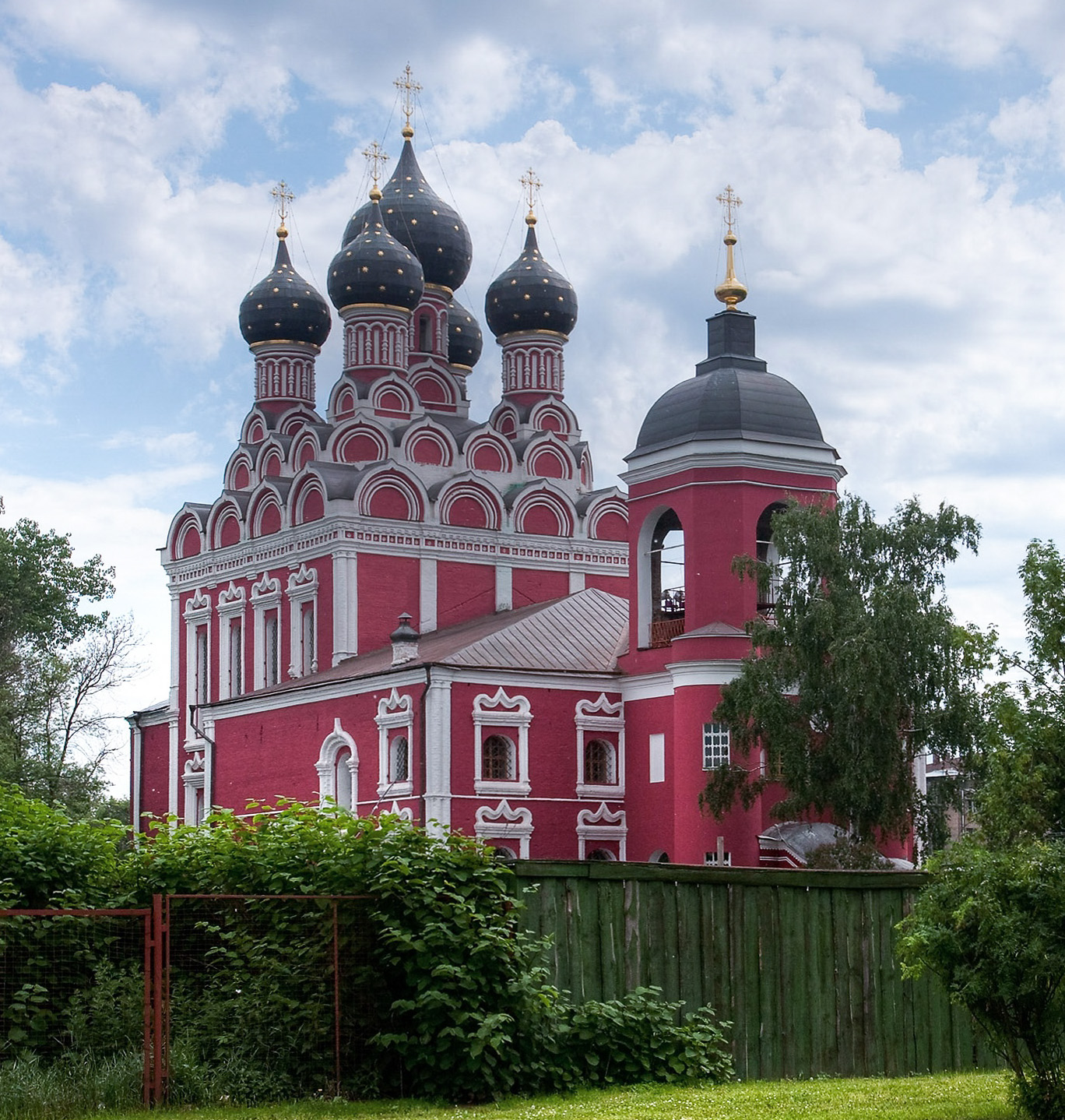 Church of the Tikhvinskaya Icon of Theotokos in Alekseyevskoe (Moscow, Russia)